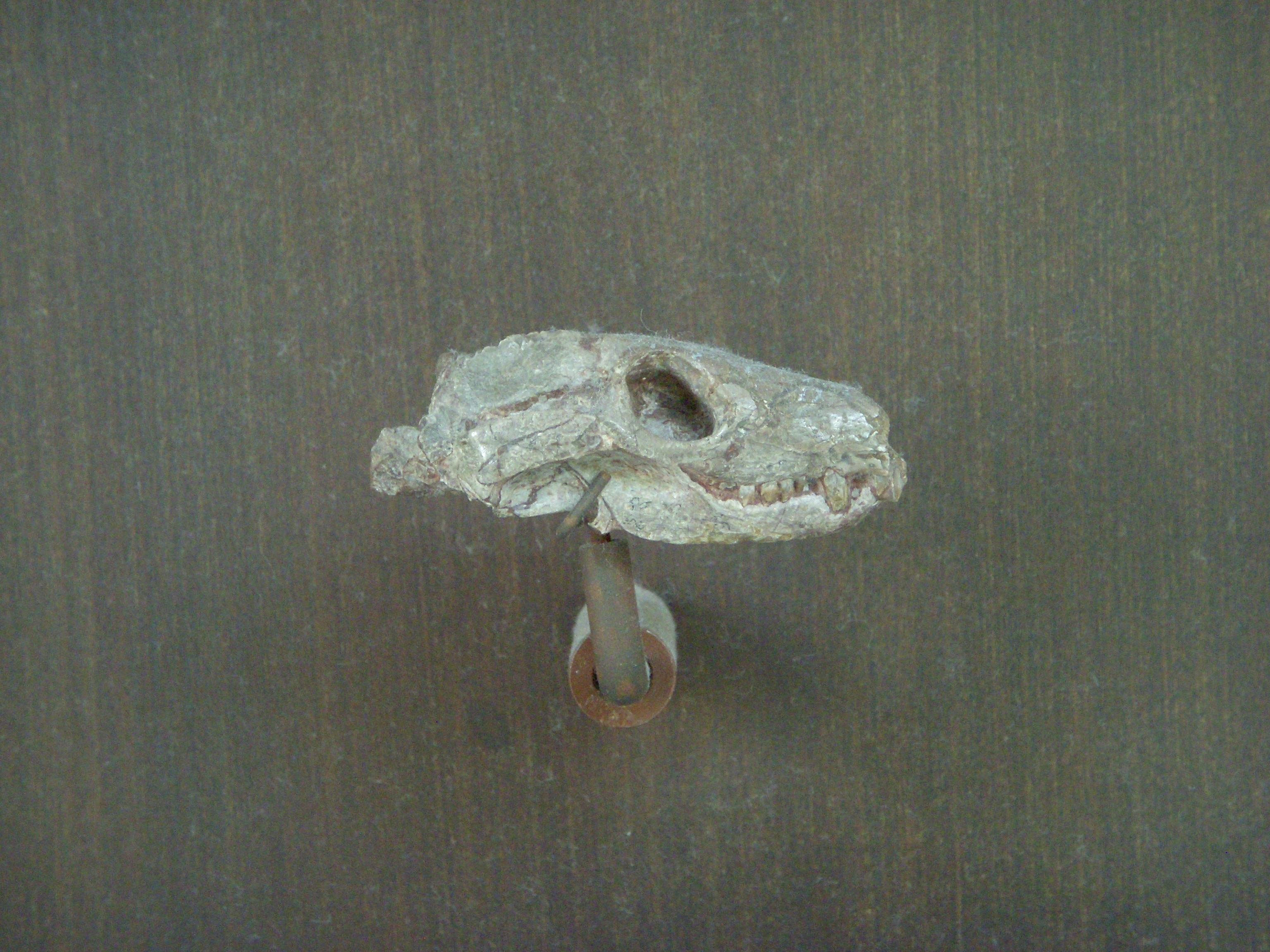 Skull of Thrinaxodon liorhinus (specimen AMNH 5630) in the American Museum of Natural History.